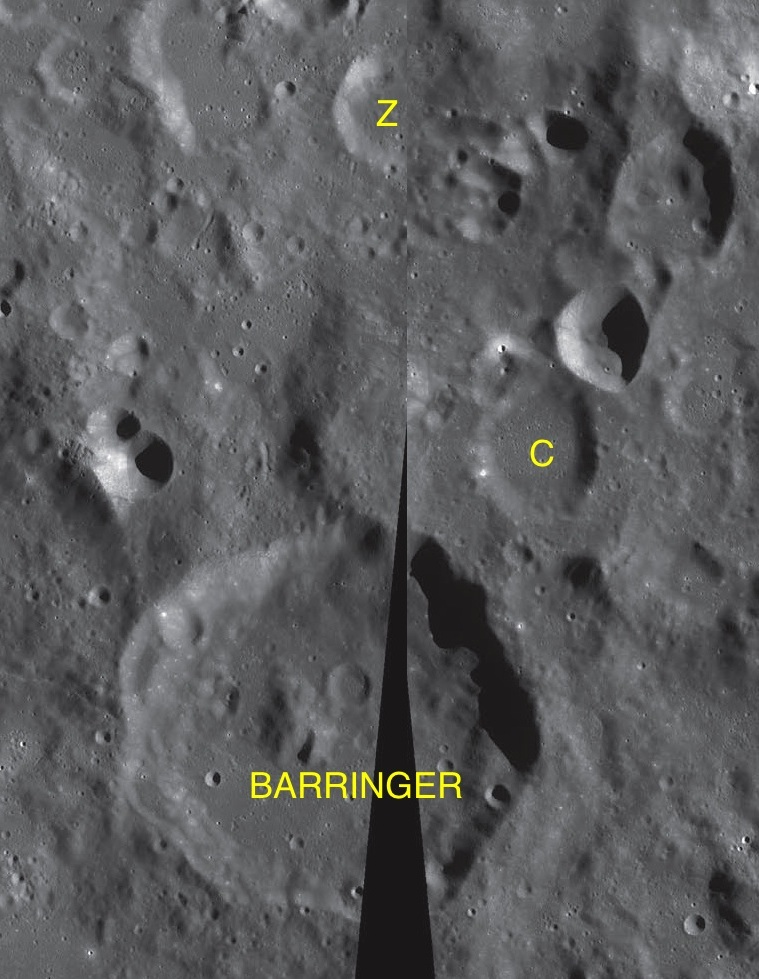 Parts of the charts LAC-105, LAC-106 used for the presentation